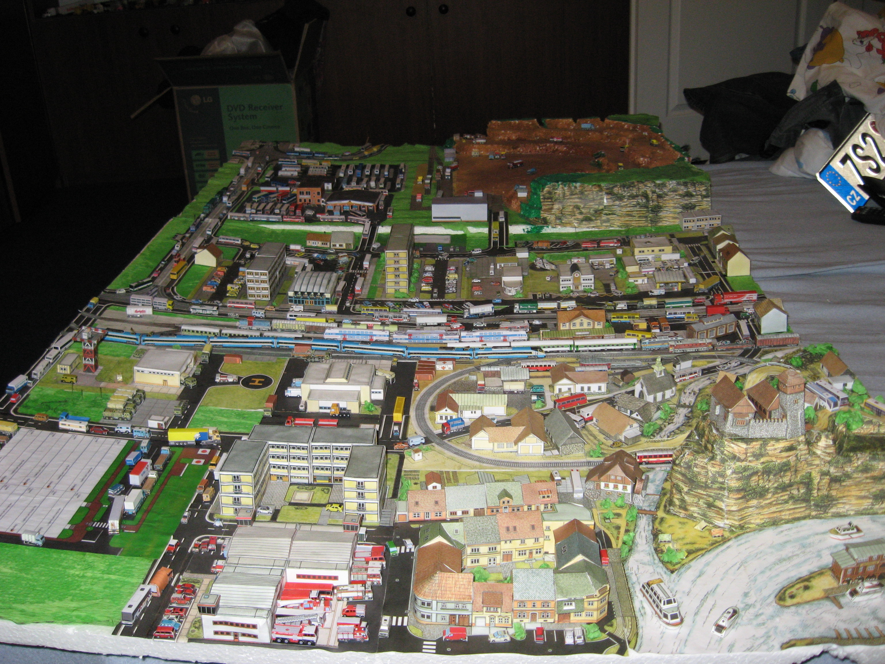 paper city